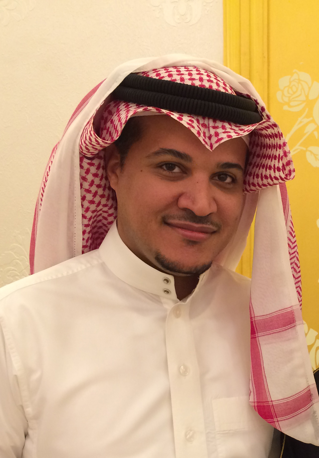 Mr. Haider Al-Shabaan 2014